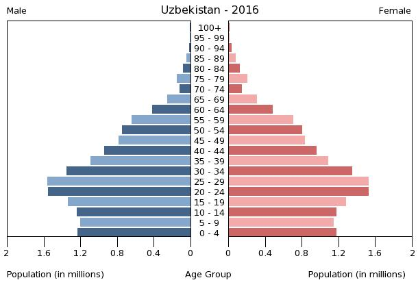 The population pyramid of Uzbekistan illustrates the age and sex structure of population and may provide insights about political and social stability, as well as economic development. The population is distributed along the horizontal axis, with males shown on the left and females on the right. The male and female populations are broken down into 5-year age groups represented as horizontal bars along the vertical axis, with the youngest age groups at the bottom and the oldest at the top. The shape of the population pyramid gradually evolves over time based on fertility, mortality, and international migration trends.